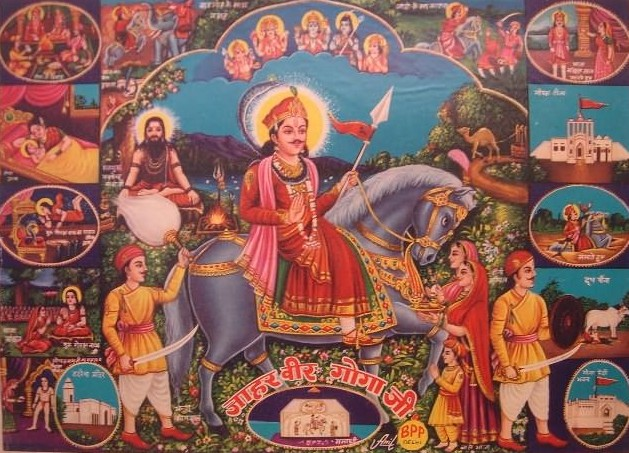 gogajee a traditional discription in portraits